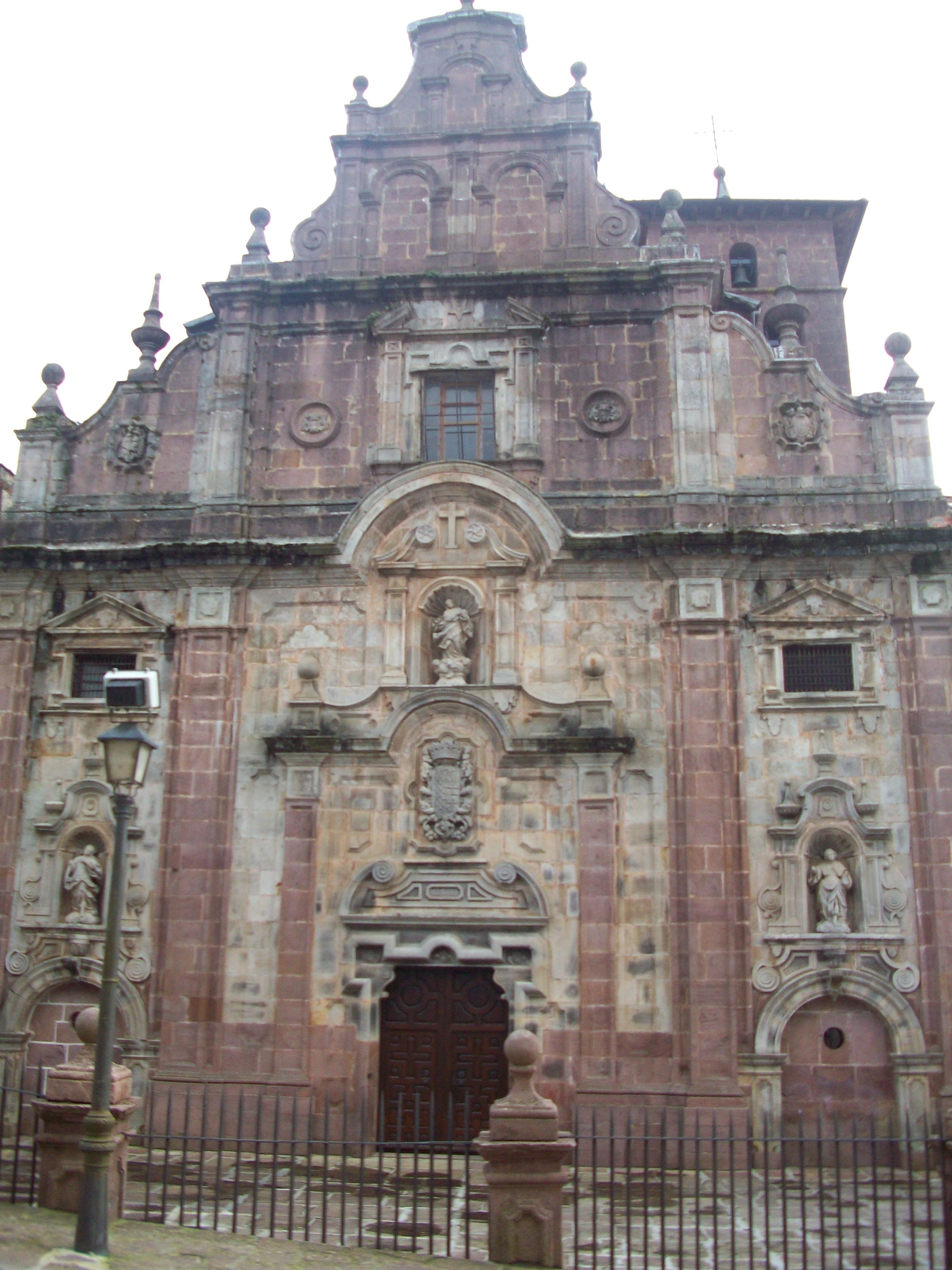 Nuestra Señora de los Angeles monastery, in Arizkun, Baztan. Navarre, Basque Country.